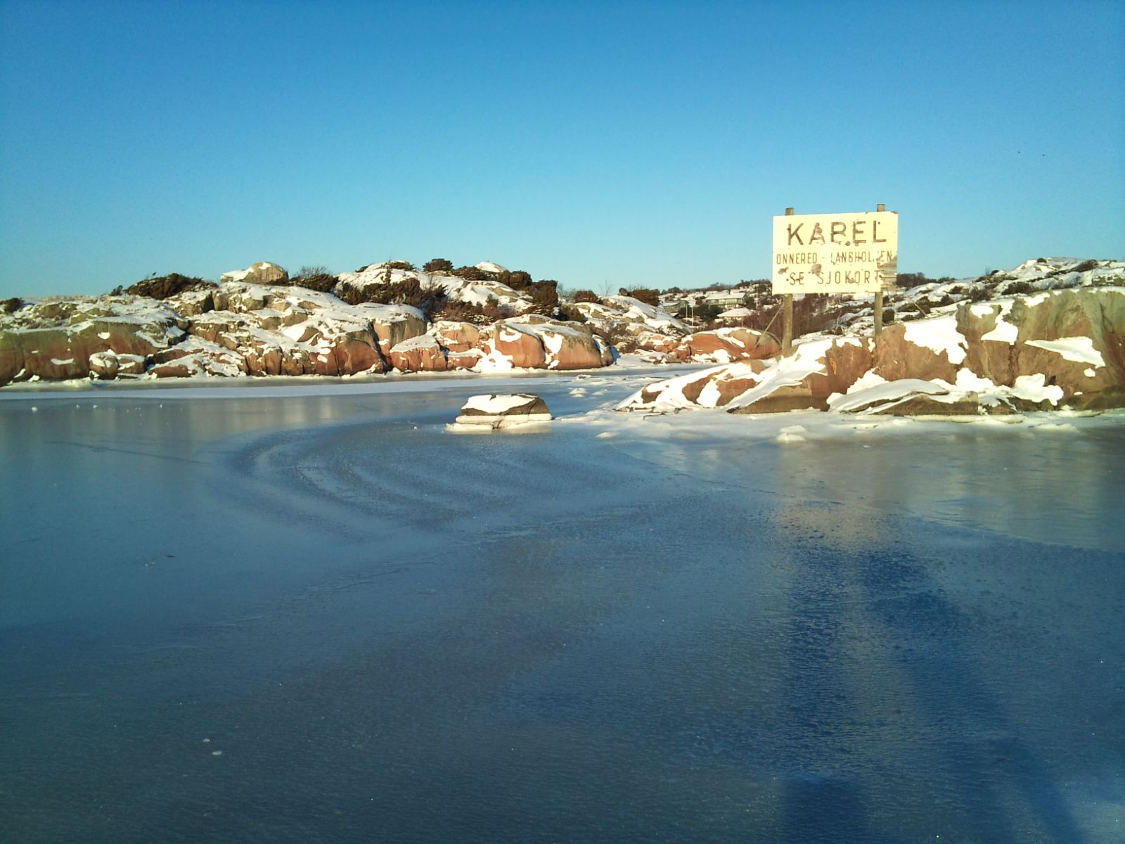 View from Ganlet at winter